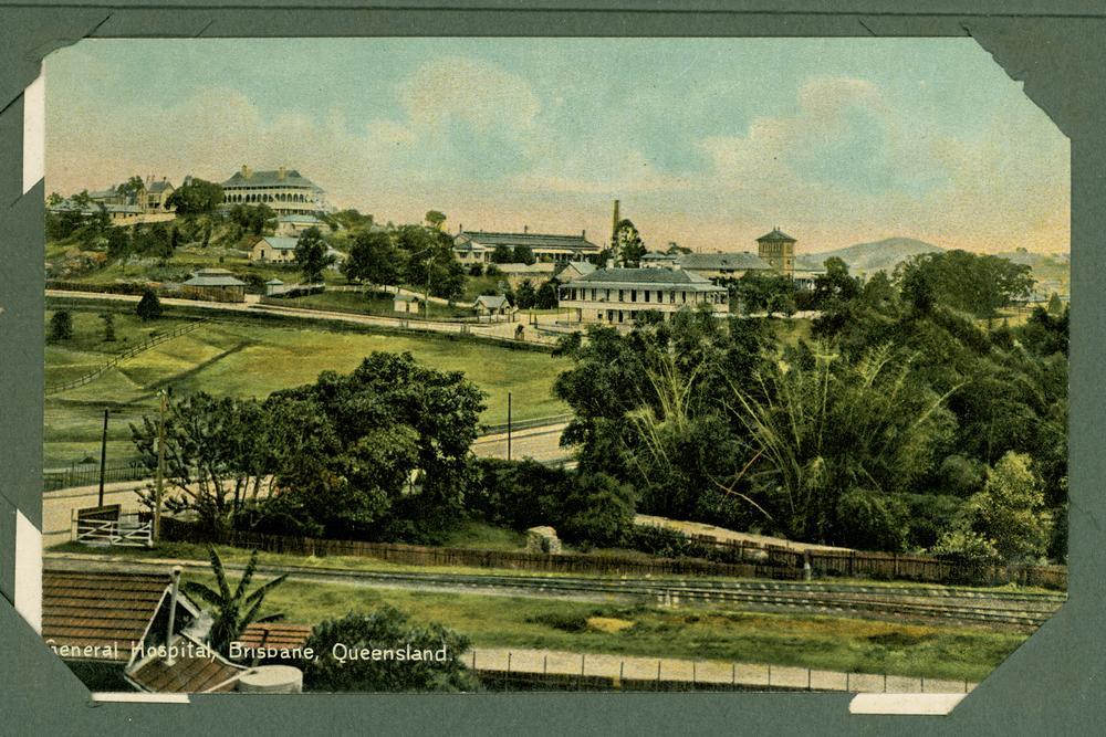 View of the General Hospital in Brisbane